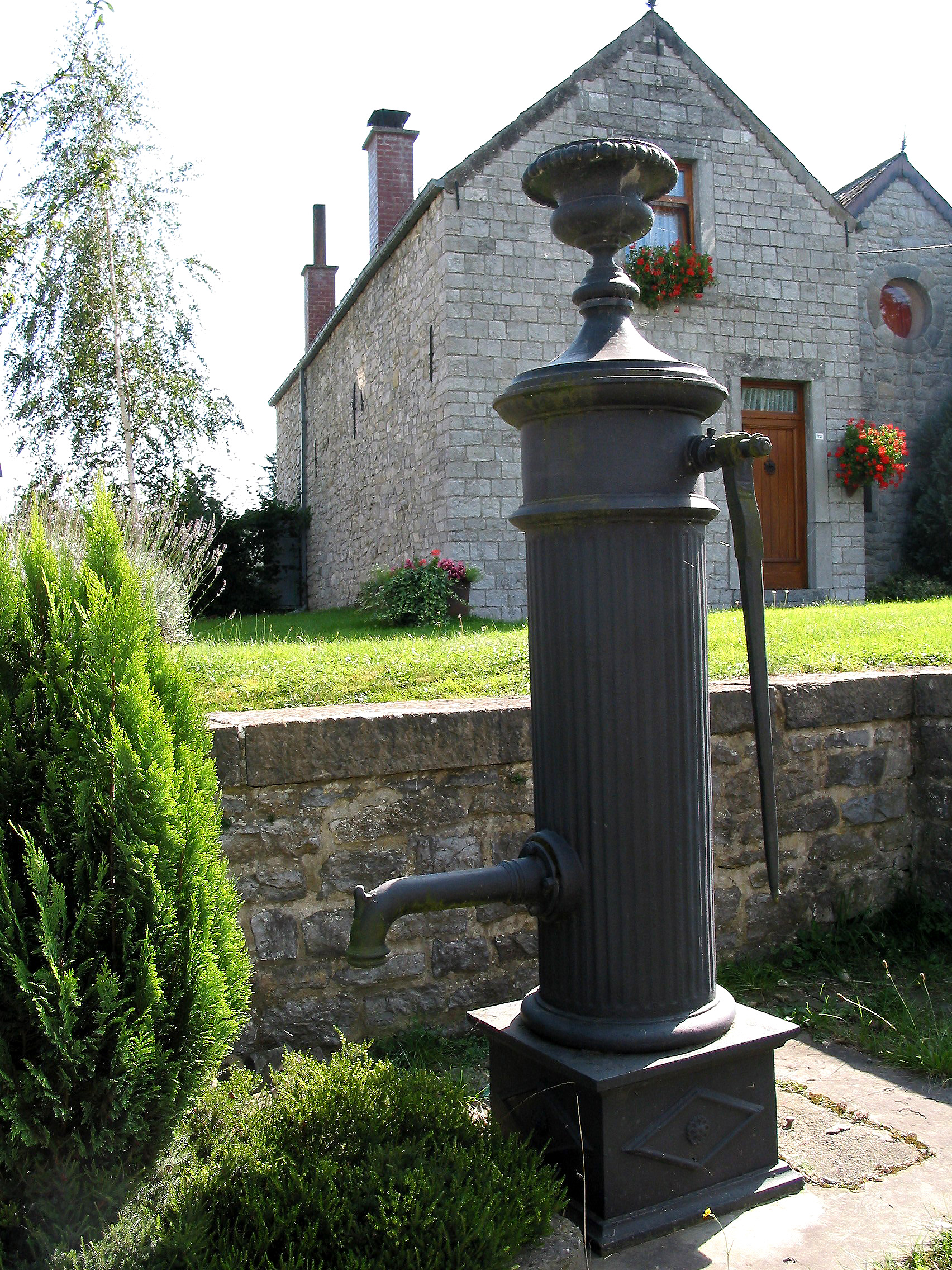 Dourbes (Belgium), one of the old municipal pumps (XIXth century).